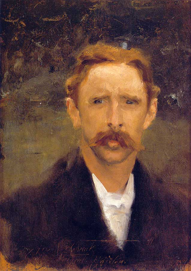 Francis Brooks Chadwick John Singer Sargent -- American painter 1880 Private collection Oil on panel 13.75 x 10 in. Jpg: / local